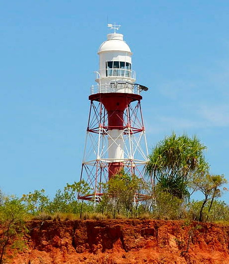 A photograph of Point Charles Light, Darwin NT. Taken at low tide from a boat.